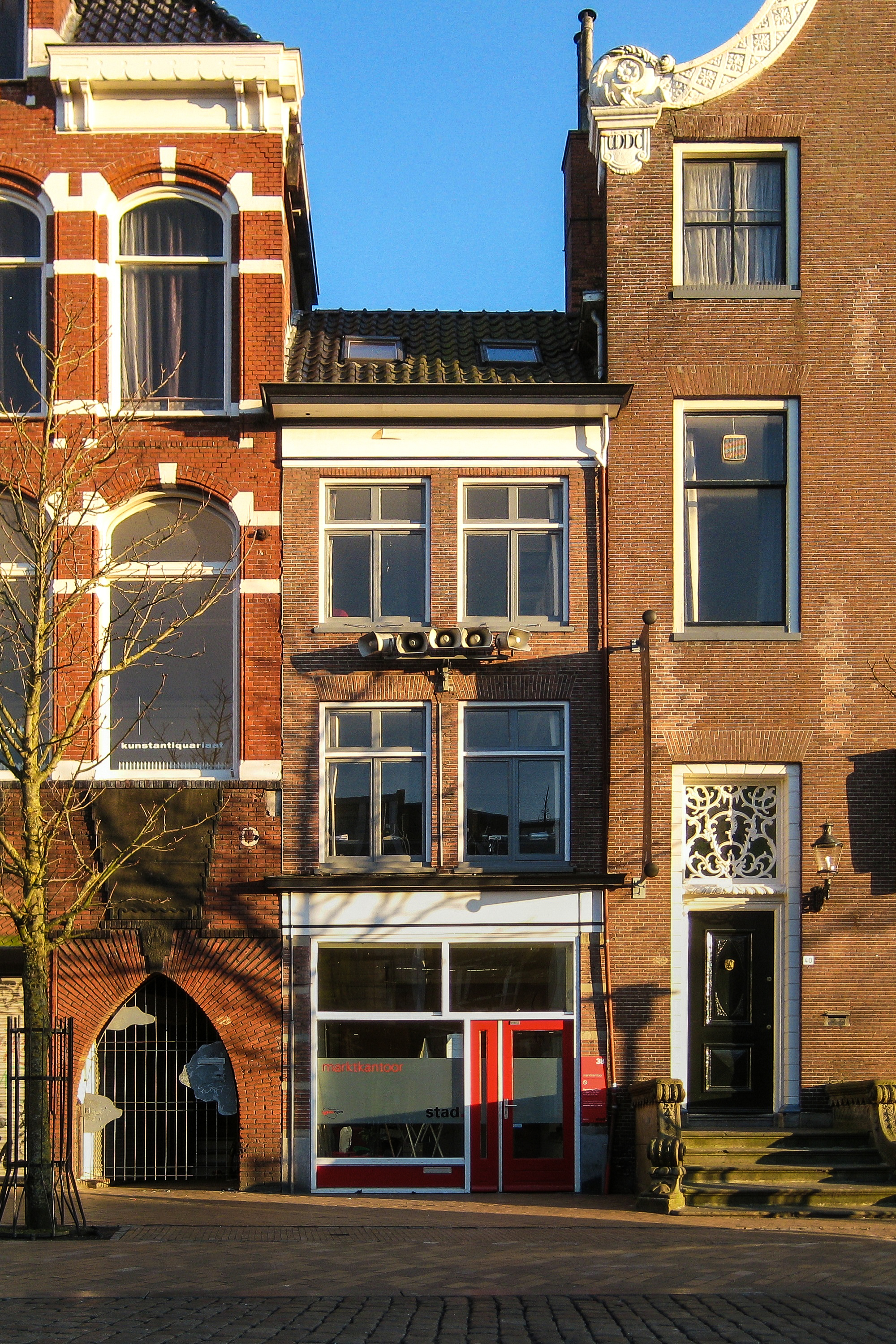 Office building in the Dutch city of Groningen.